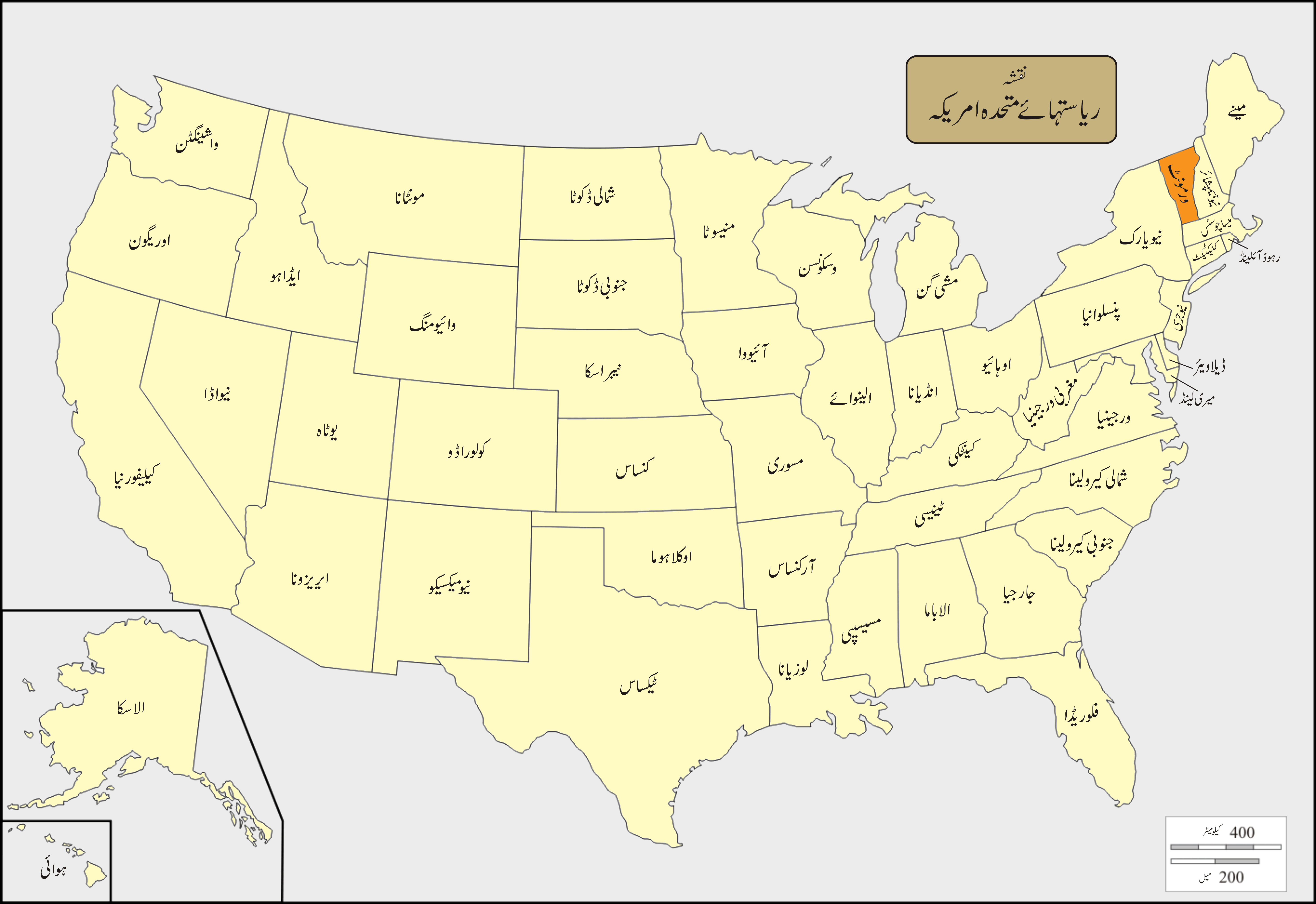 USA Names Vermont